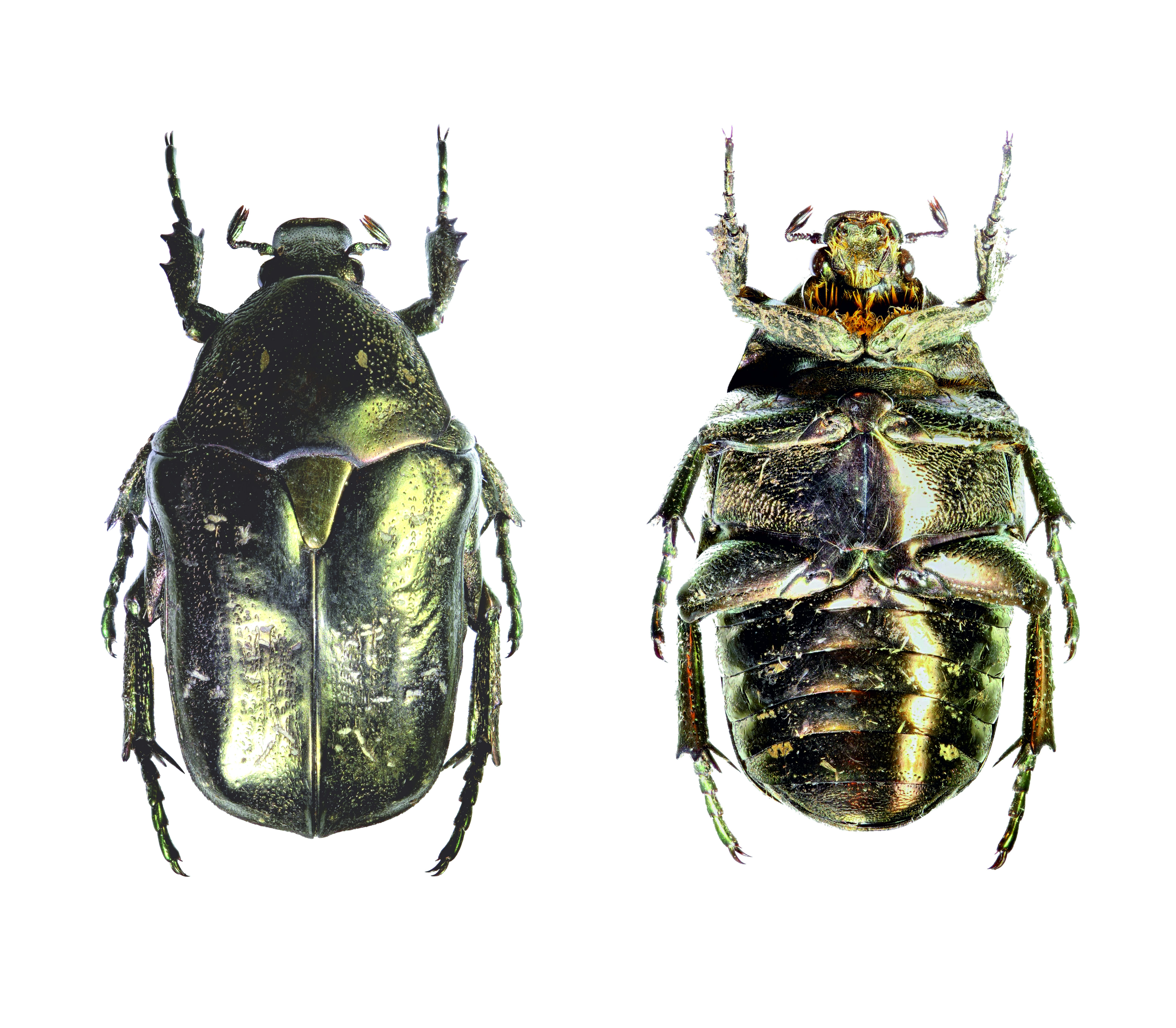 Protaetia (Liocola) marmorata dorsal & ventral